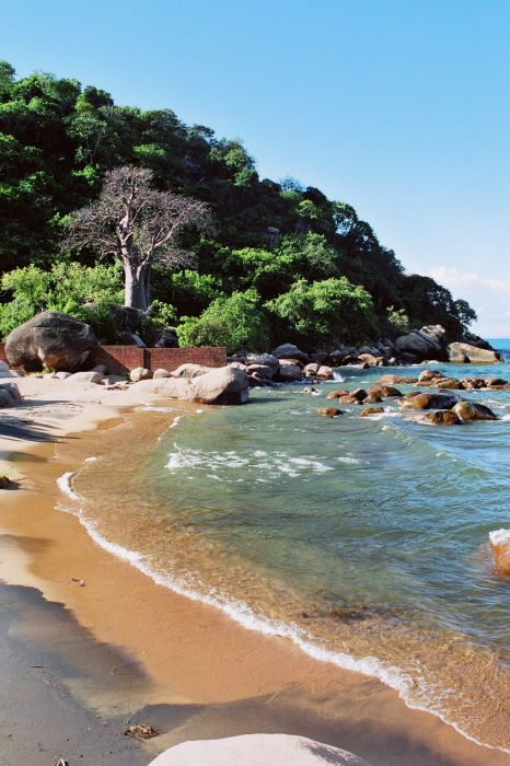 Shore of Lake Malawi